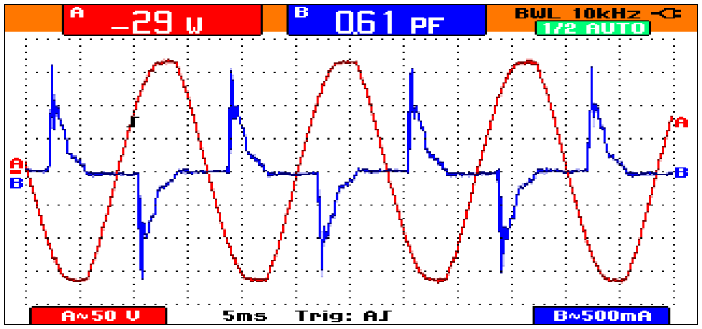 Same as CFL Positive Power.png but with current clamp reversed. Indicated power is now -29 watts, but this instrument still shows the power factor as 0.61.